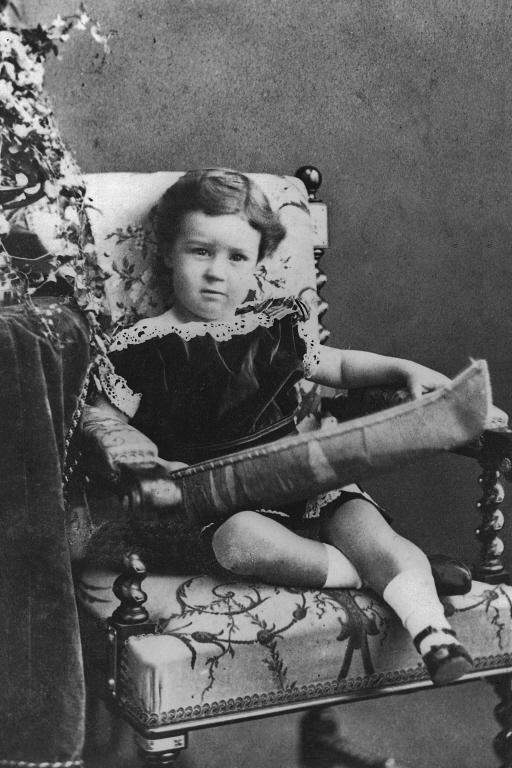 Photograph, Master Robert W. Reford, Montreal, QC, 1870, William Notman (1826-1891), Silver salts on paper mounted on paper - Albumen process - 8.5 x 5.6 cm